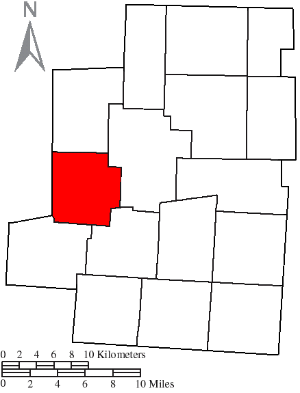 Originally created by the US Census. Modified by myself to highlight the township.